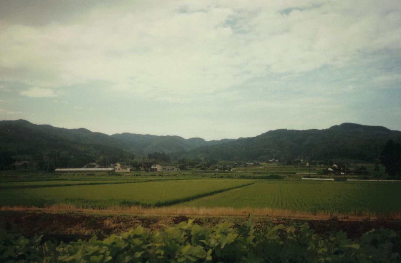 Kuninaka Plain, Sado Island, Niigata Prefecture, Japan